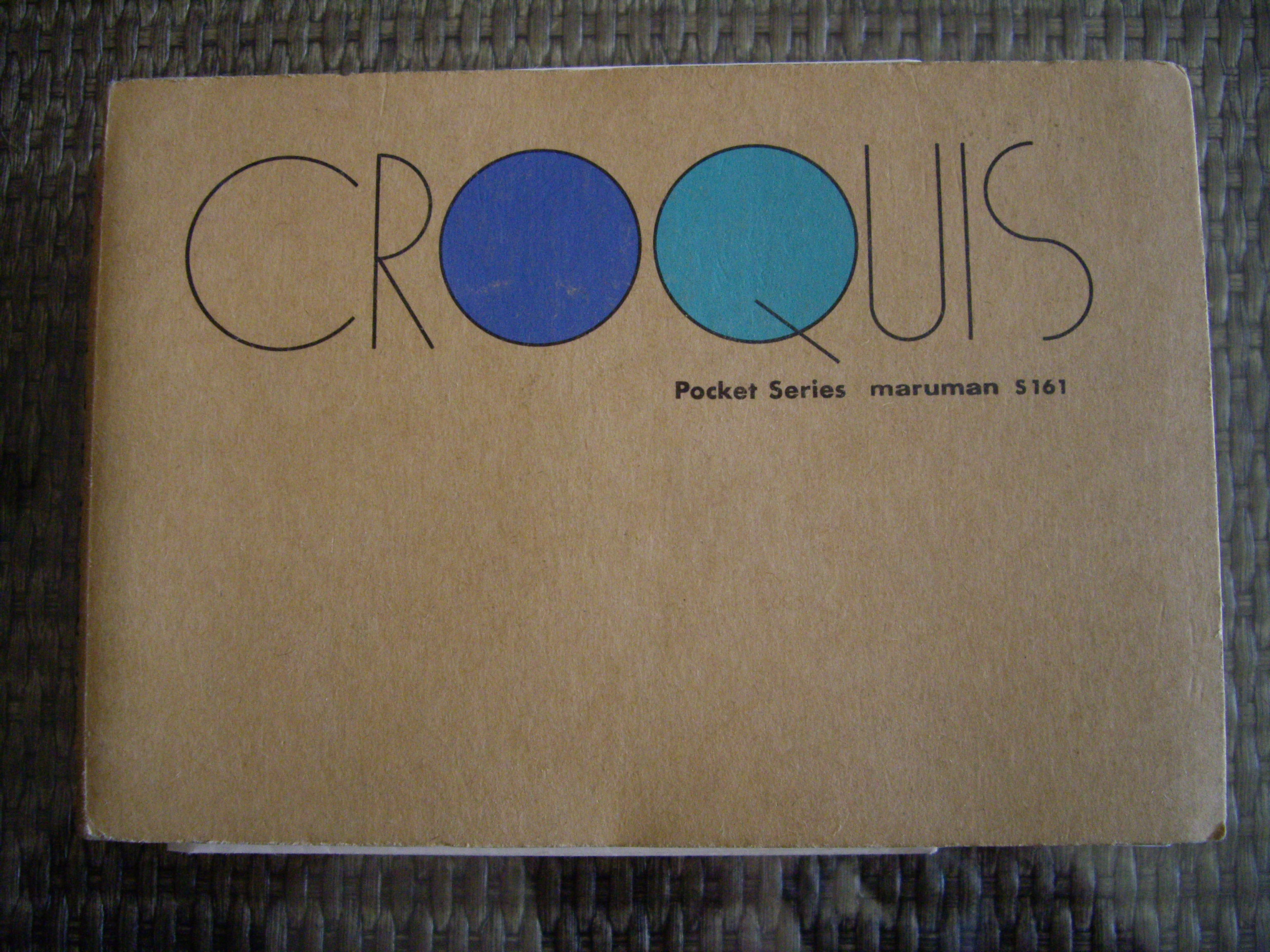 Stamps from Japan